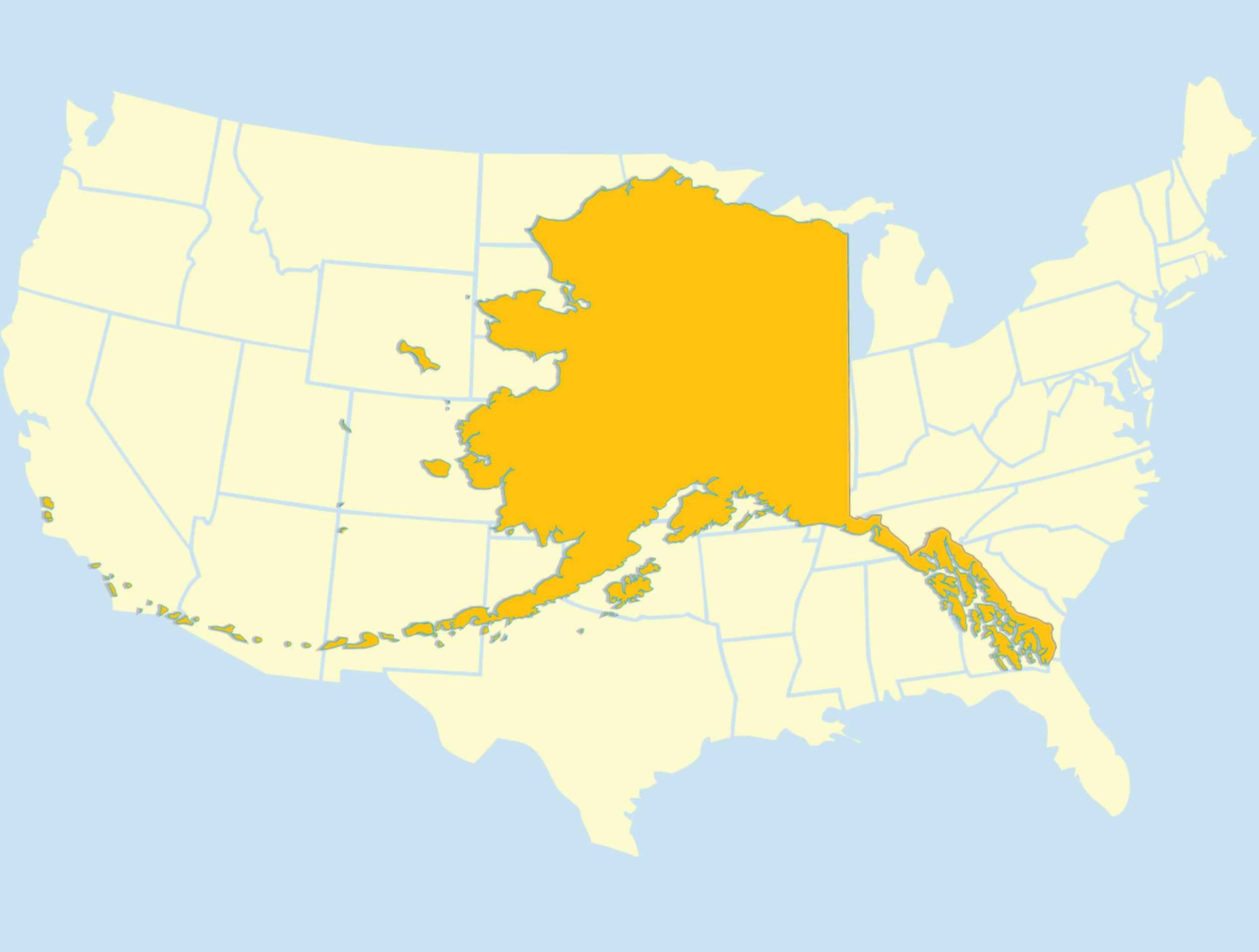 Image title: Alaska map over US map Image from Public domain images website